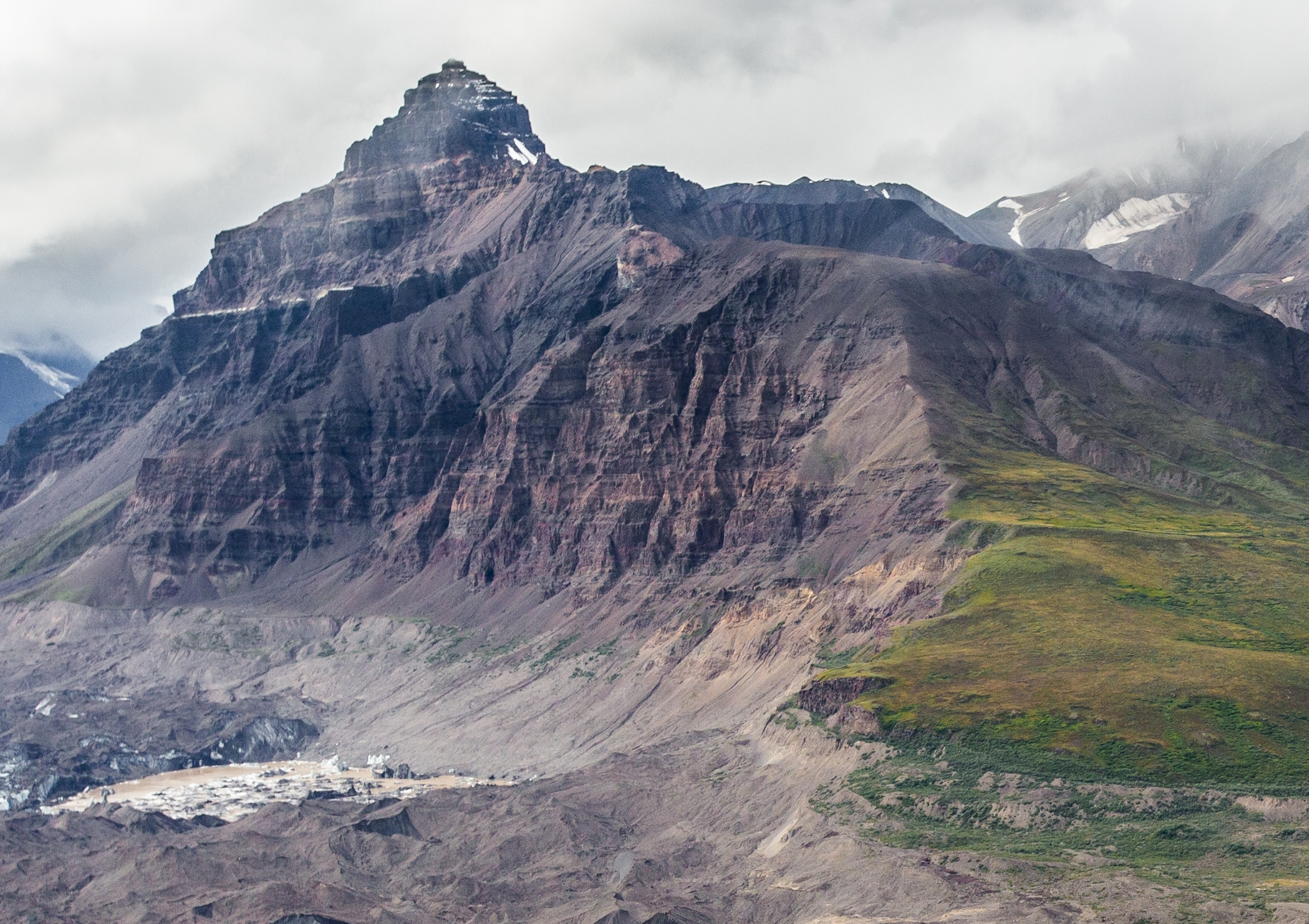 Castle Mountain in Alaska from east